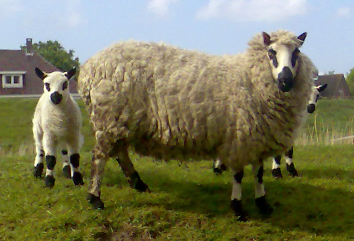 Kerry Hill ewe and her lambs